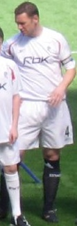 Kevin Nolan of Bolton lining up before a match against Chelsea at Stamford Bridge, London.